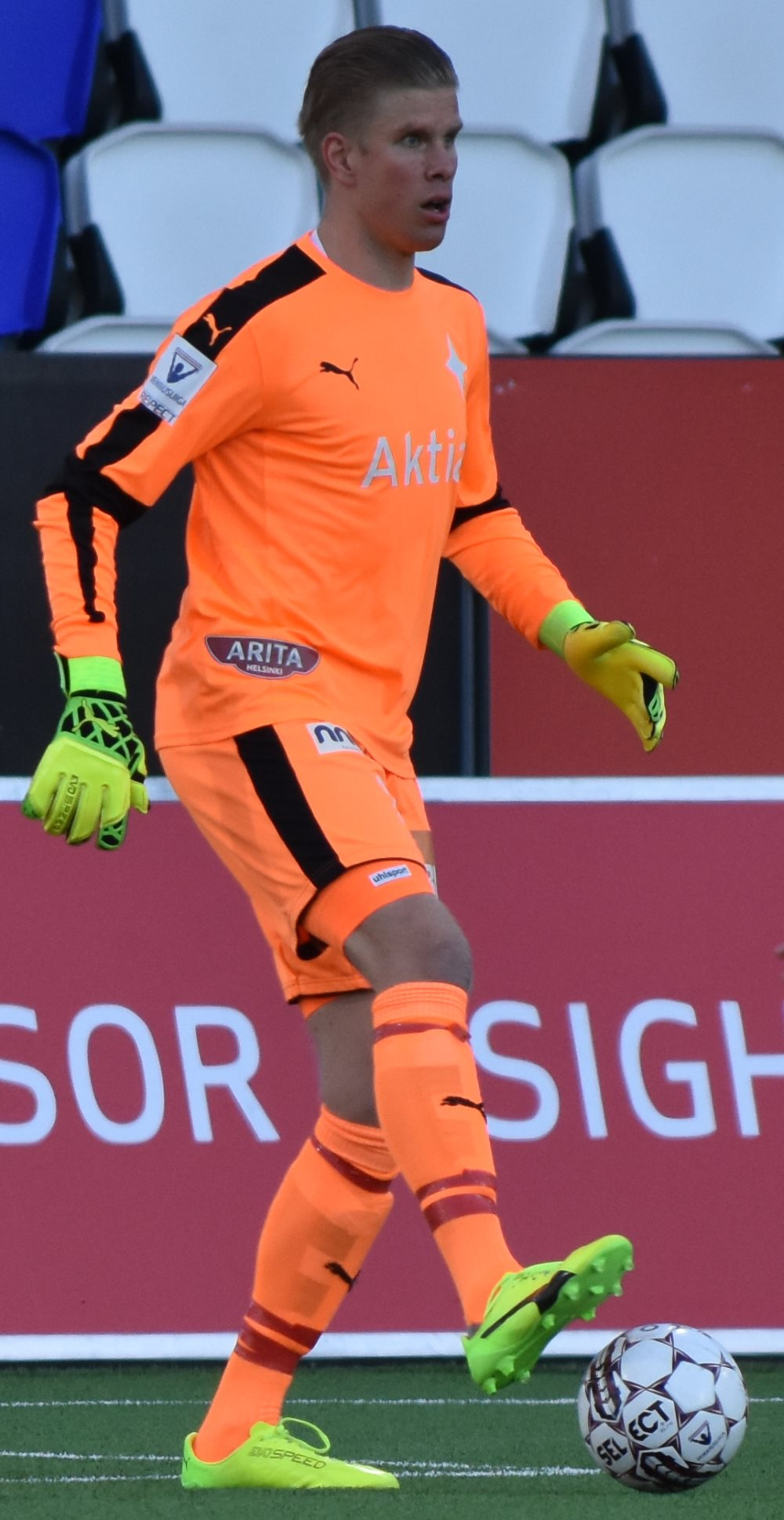 Fotball goalkeeper Tomi Maanoja (HIFK)